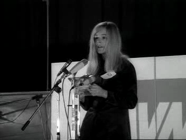 Screenshot of Newsreel in which Dutch subjects of a certain week are presented. Meeting of the action group Man-Vrouw-Maatschappij (Man-Woman-Society) for their 5 year anniversary. Joke Kool-Smit gives a speech and notices the small number of men that are present.